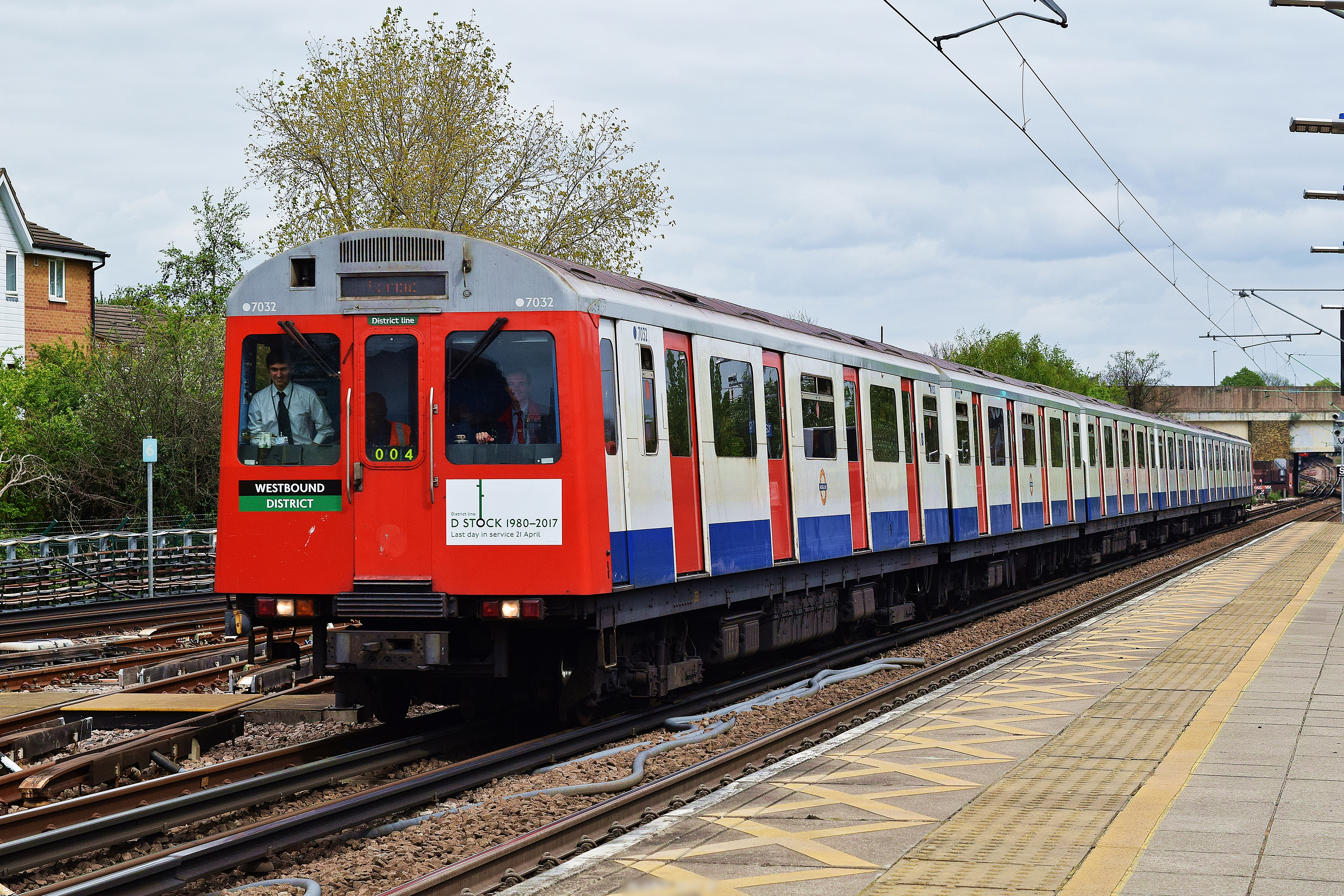 Last D stock at West Ham